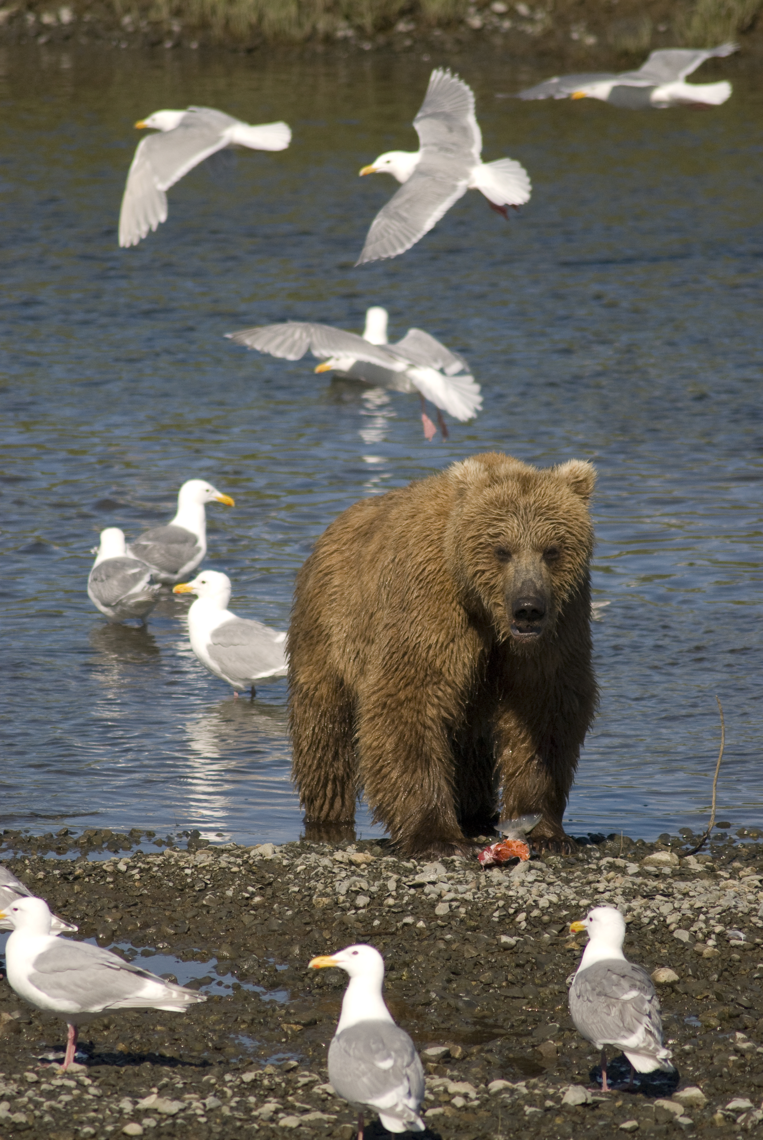 A brown bear (Ursus arctos) and seagulls in Alaska.